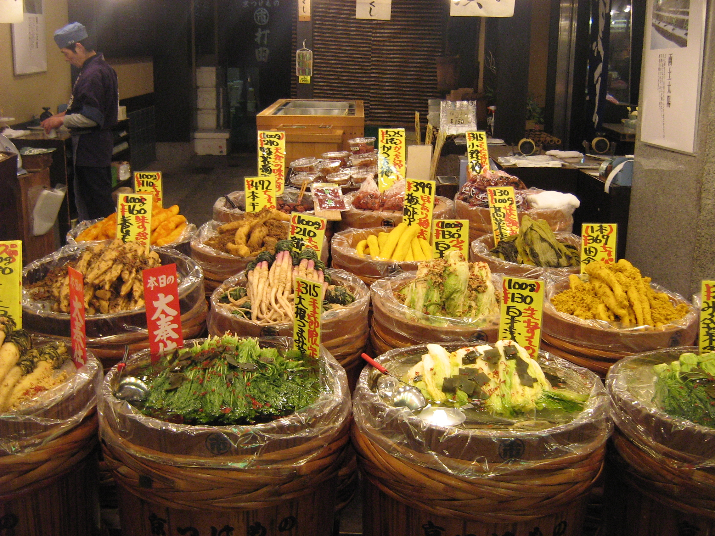 Nishiki Market is a narrow, shopping street, lined by more than one hundred shops. Various kinds of fresh and processed foods including many Kyoto specialties, such as pickles, Japanese sweets, dried food, sushi, and fresh seafood and vegetables are sold.